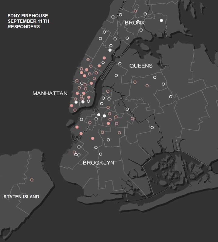 September 11th Firehouse Responder according to the New York Times